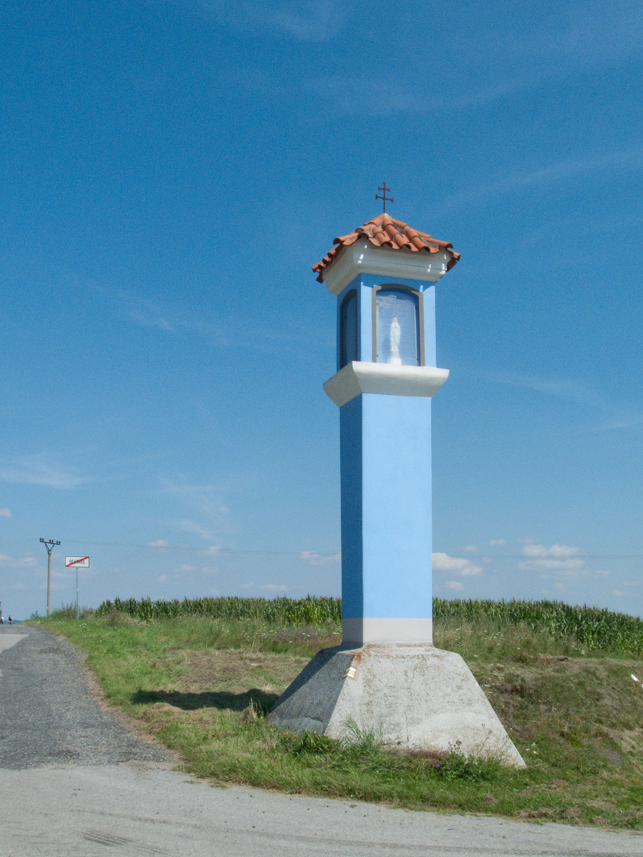 Wayside column at the village of Dehtáře, České Budějovice district, Czech Republic